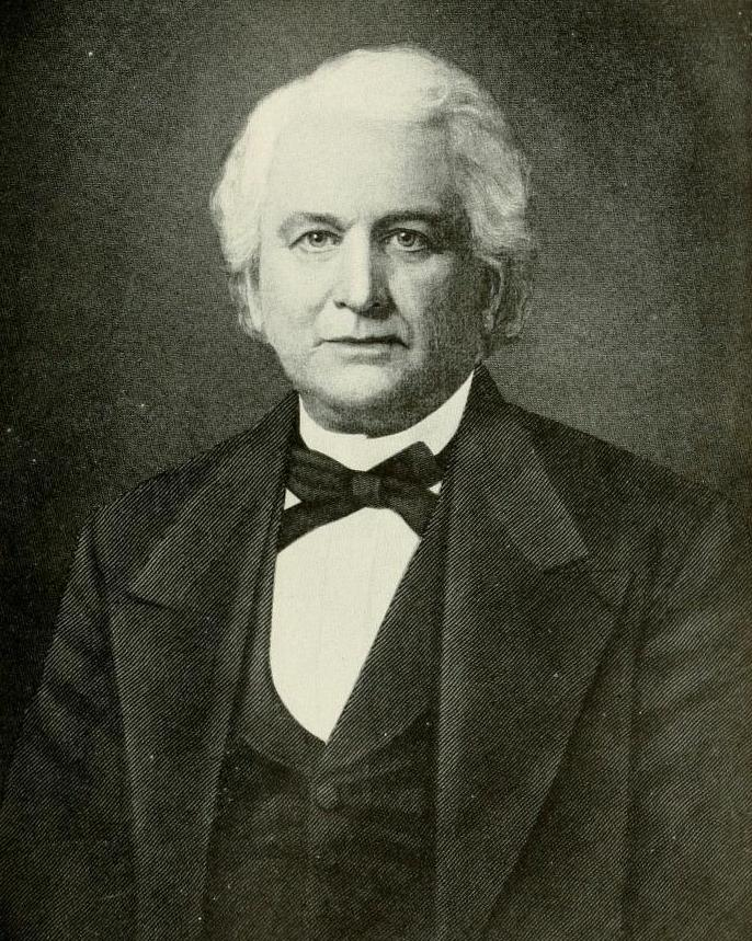 Alexander Catlin Twining (Jul. 5, 1801- Nov. 22, 1884) American scientist A modern history of New Haven and eastern New Haven County by Hill, Everett Gleason, Published 1918, page 283.